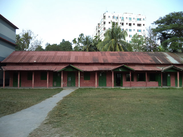 Moulvibazar Govt. High School School, building dating from the British time